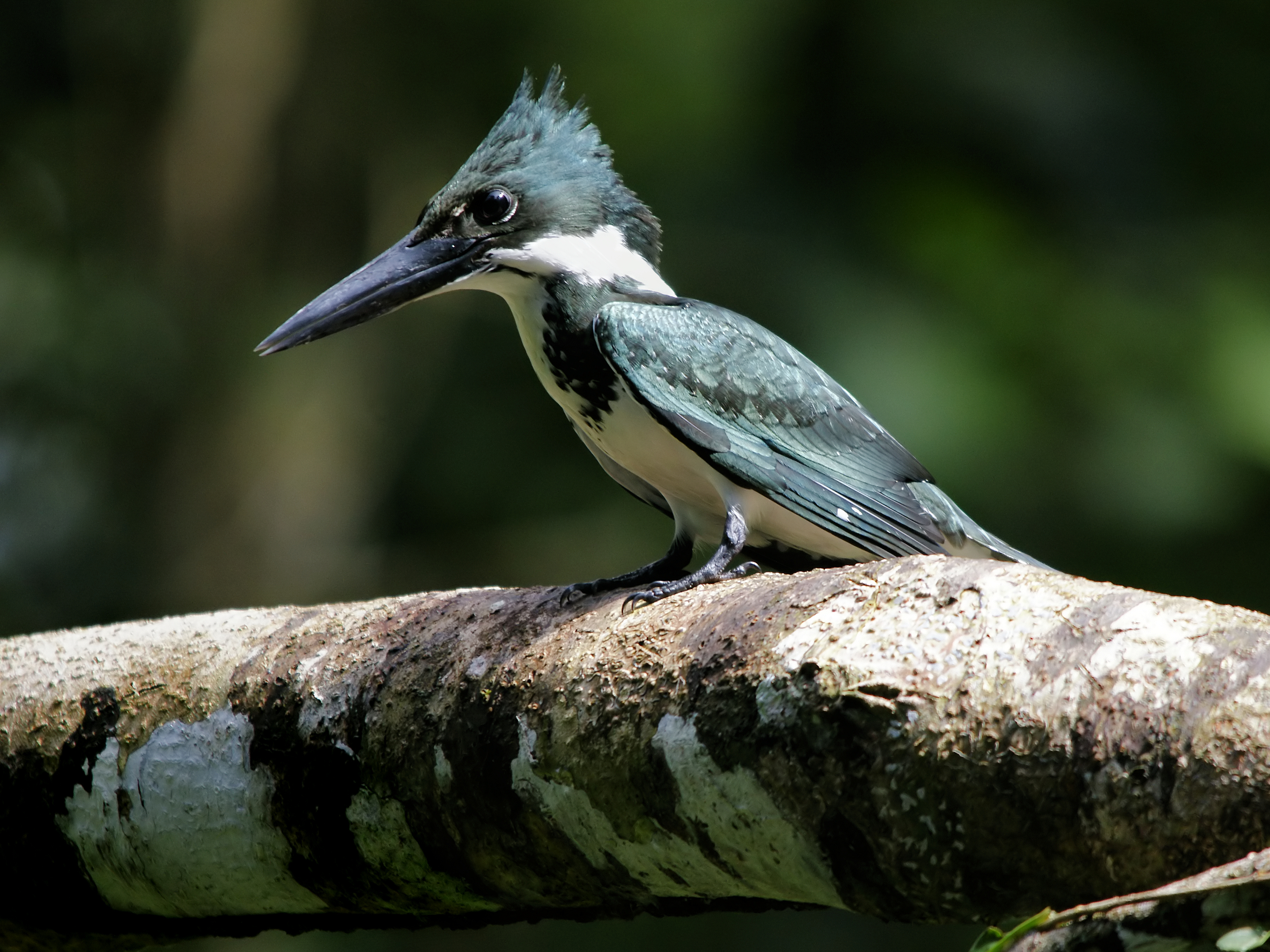 Female Green Kingfisher at Tortuguero, Costa Rica.